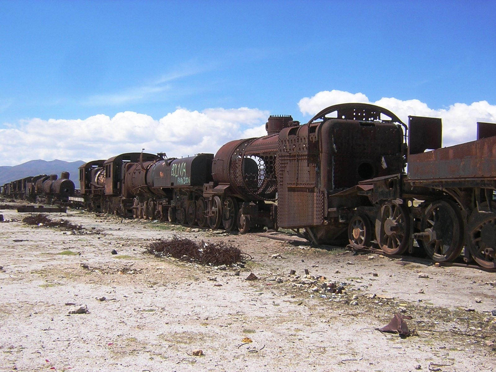 railway graveyard in Bolivia